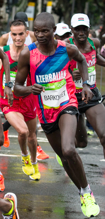 Men's marathon at the 2016 Summer Olympics